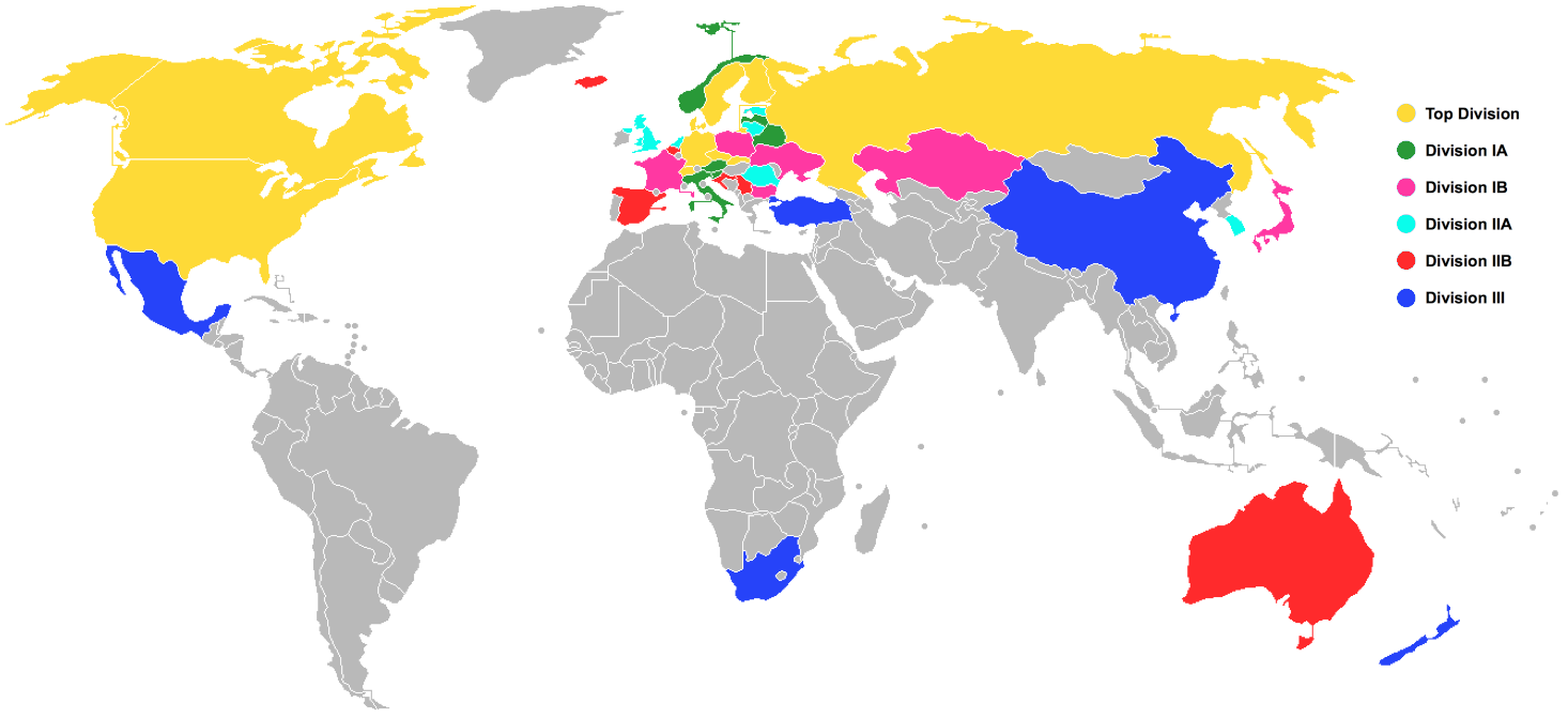 Nations participating in the 2015 World Junior Ice Hockey Championship, by Divisions